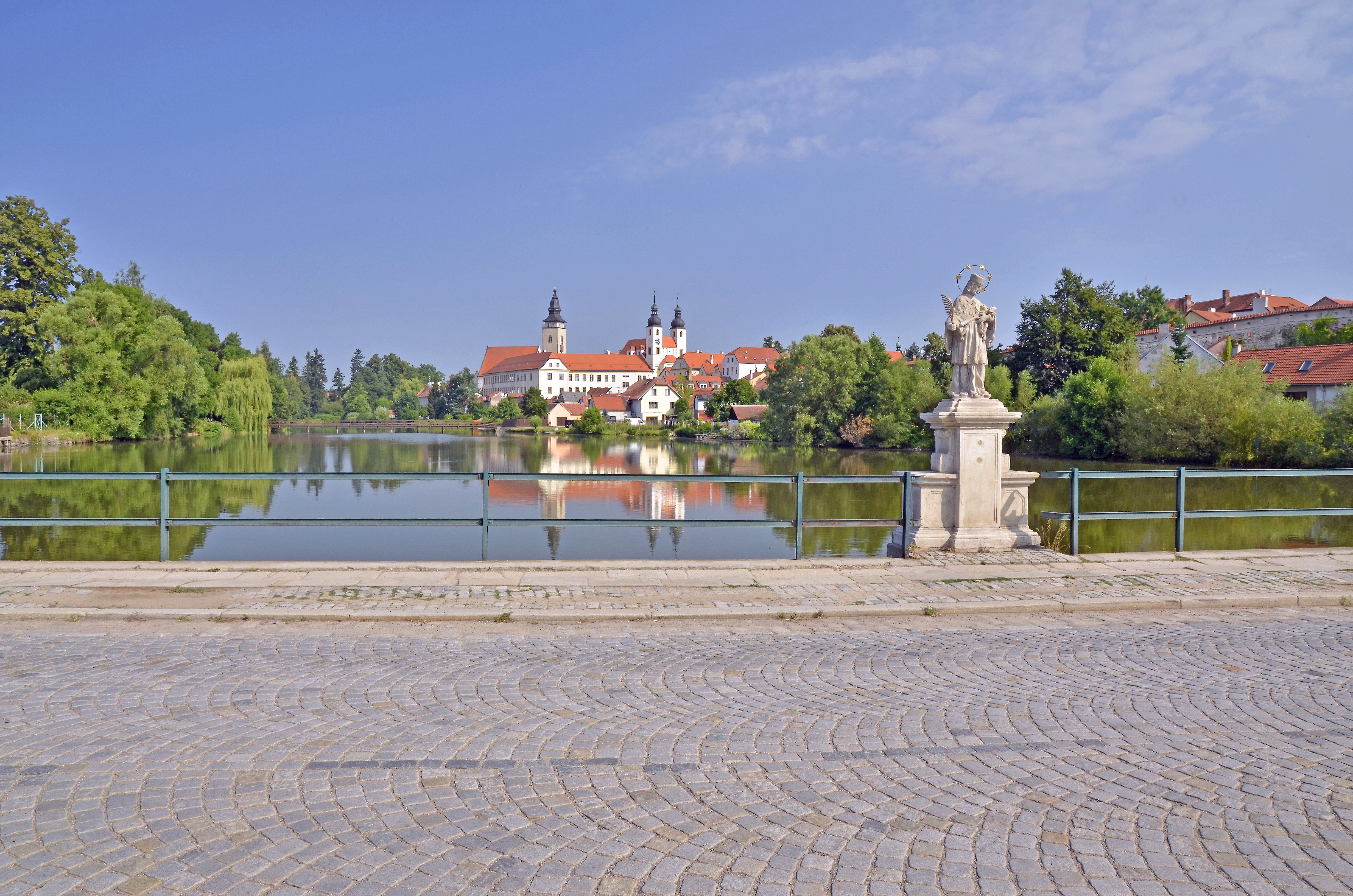 Telč (German: Teltsch) - Czech Republic